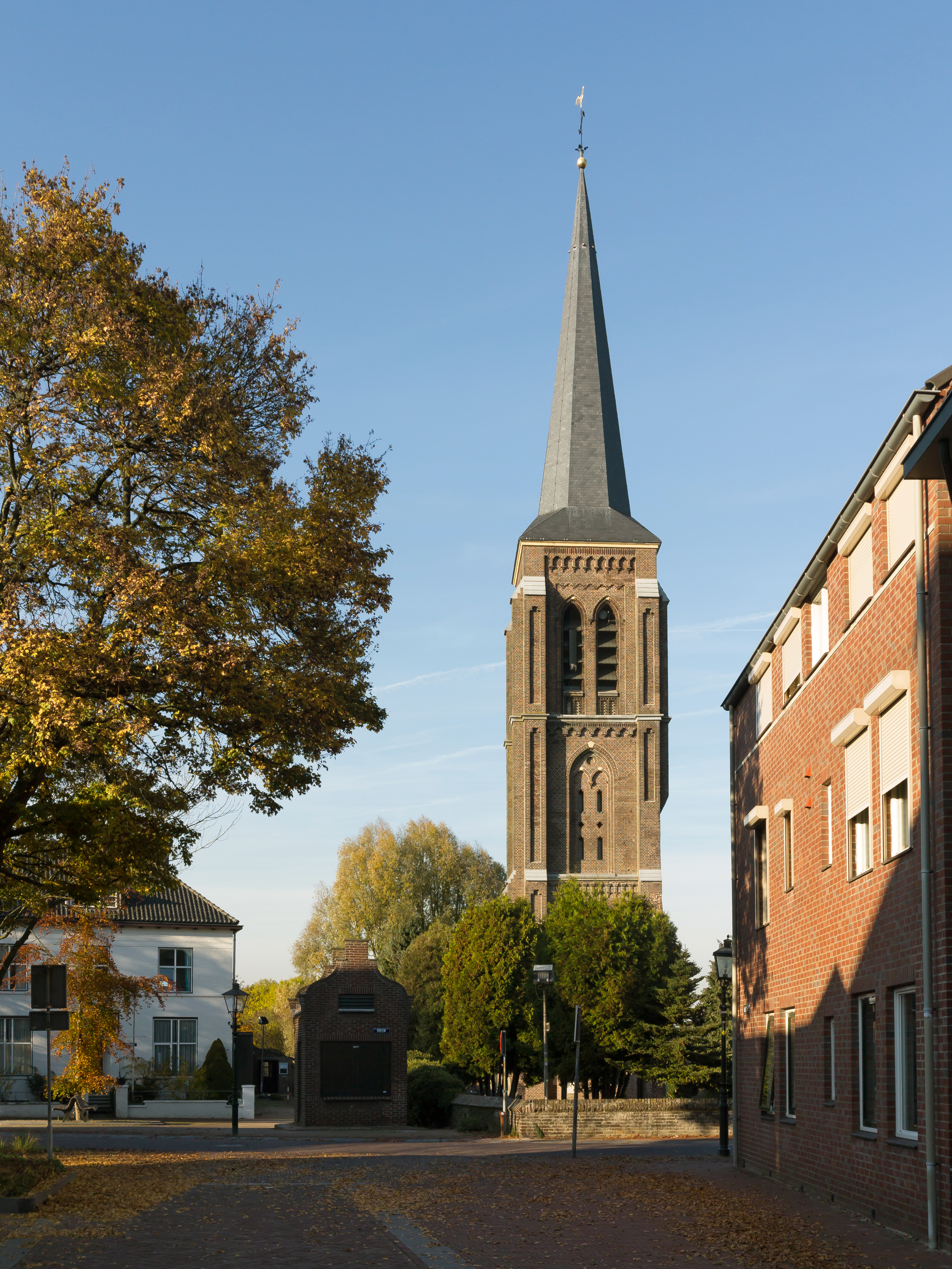 Gennep, tower: de Sint Martinustoren